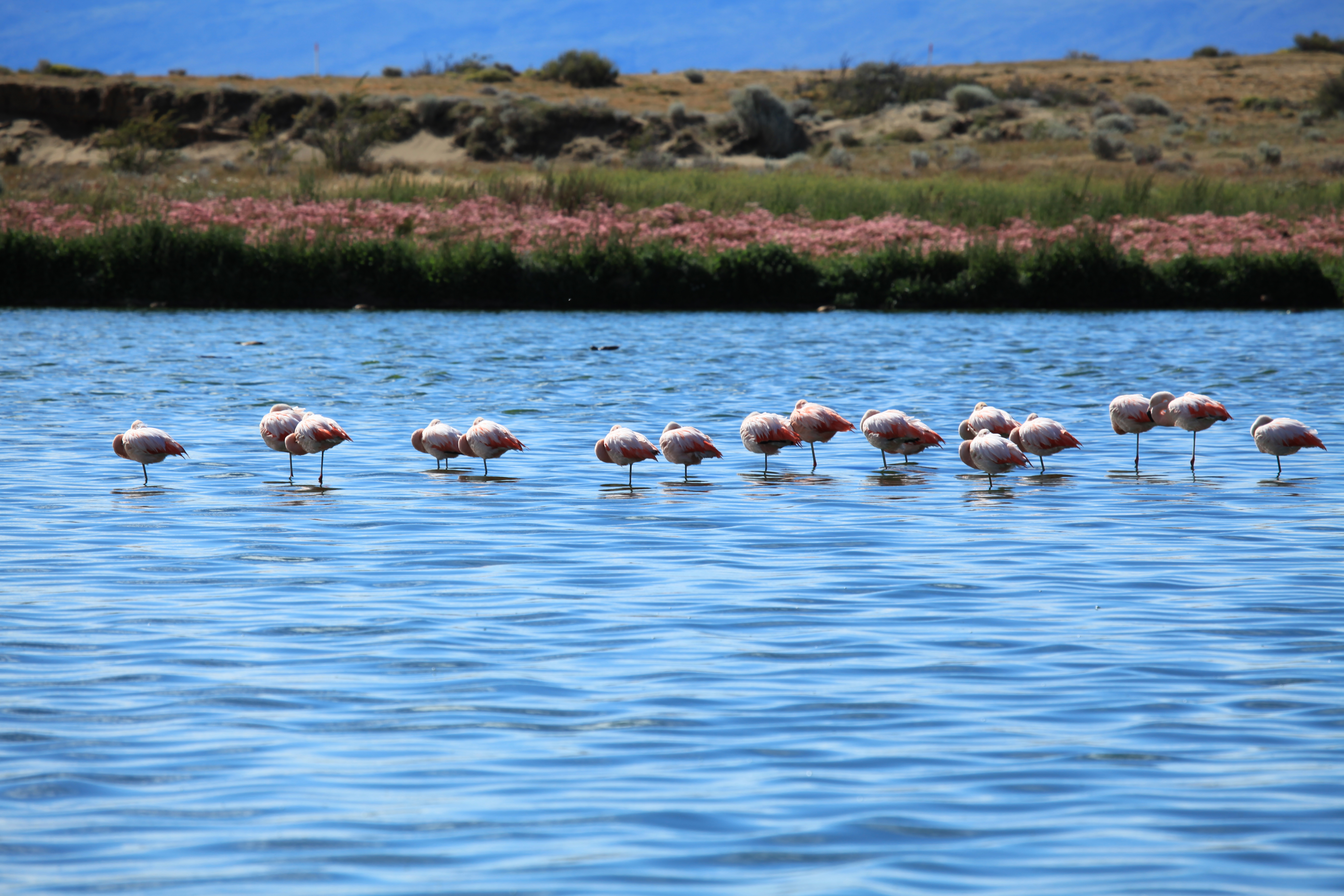 Photographed at the Laguna Nímez Reserve in El Calafate, Argentina.